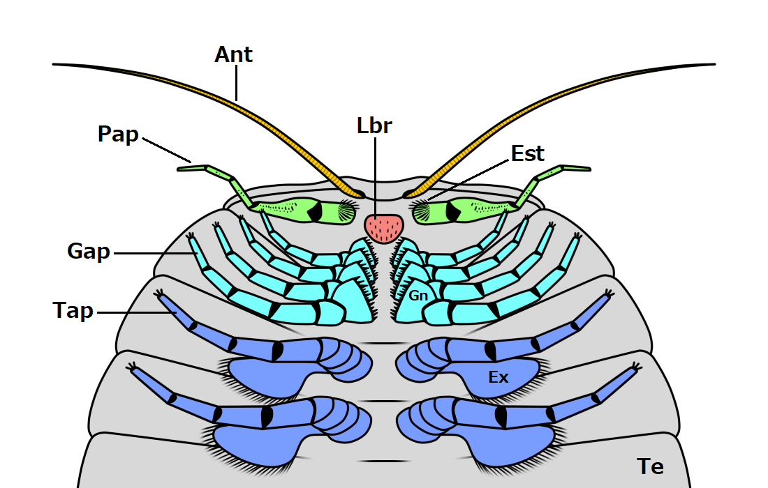 Ventral structures of the anterior region of Cheloniellon calmani, a devonian cheloniellid arthropod (Artiopoda).